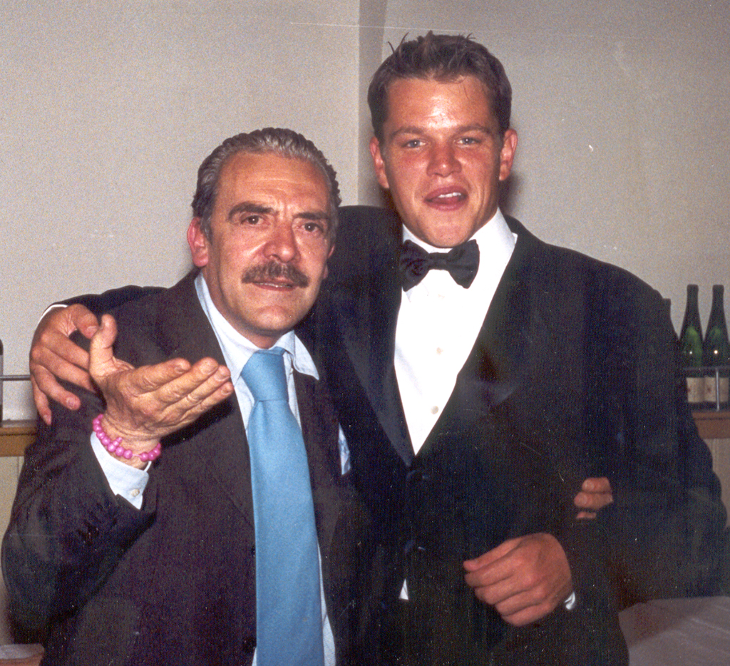 Rino Barillari, Archivio Barillari Story, color negative - Rino Barillari and Matt Damon at Harry's Bar, Via Veneto, Roma, Italy, during The Talented Mr. Ripley shooting, 1999 (GFDL License)